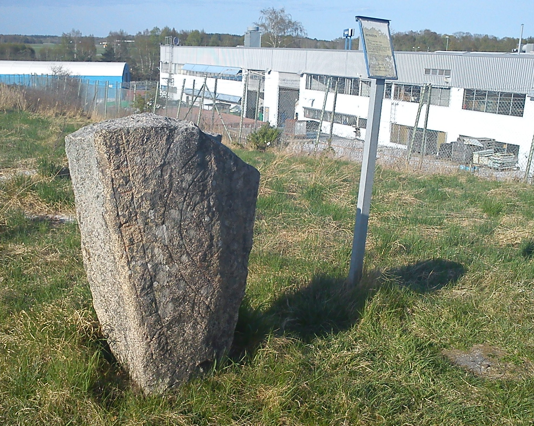 Runestone U84; Äggelundastenen, Veddesta, Järfälla, Uppland